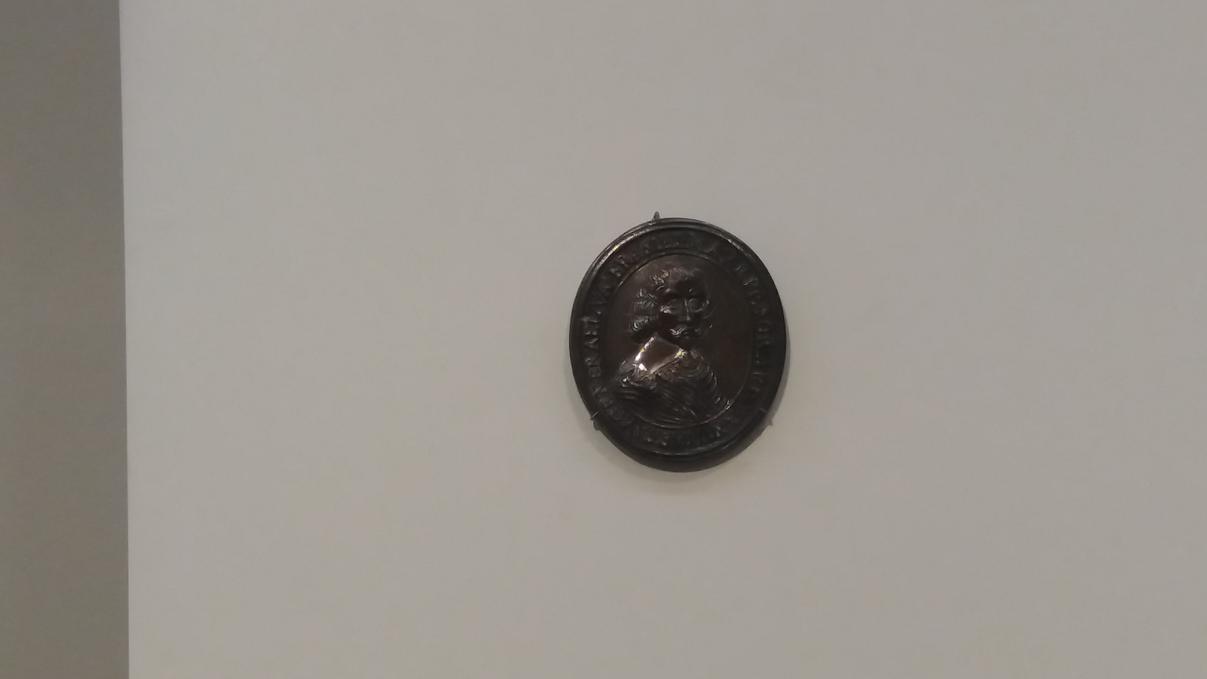 Image from the Frans Post Collection on display at Itaú Cultural, São Paulo, Brazil